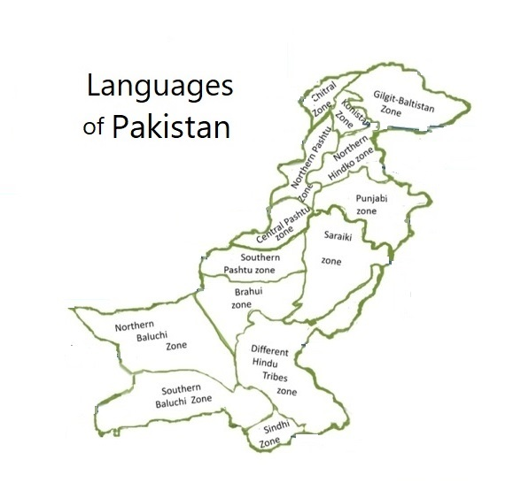 Languages of Pakistan